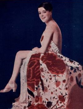 Ibis Blasco- actriz española